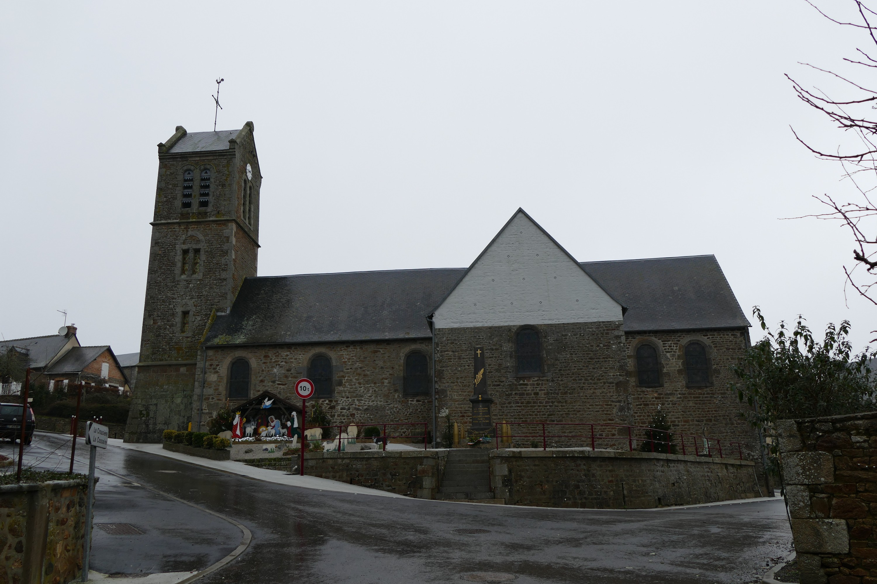 Saint-Ellier's church in Saint-Ellier-les-Bois (Orne, Normandie, France).